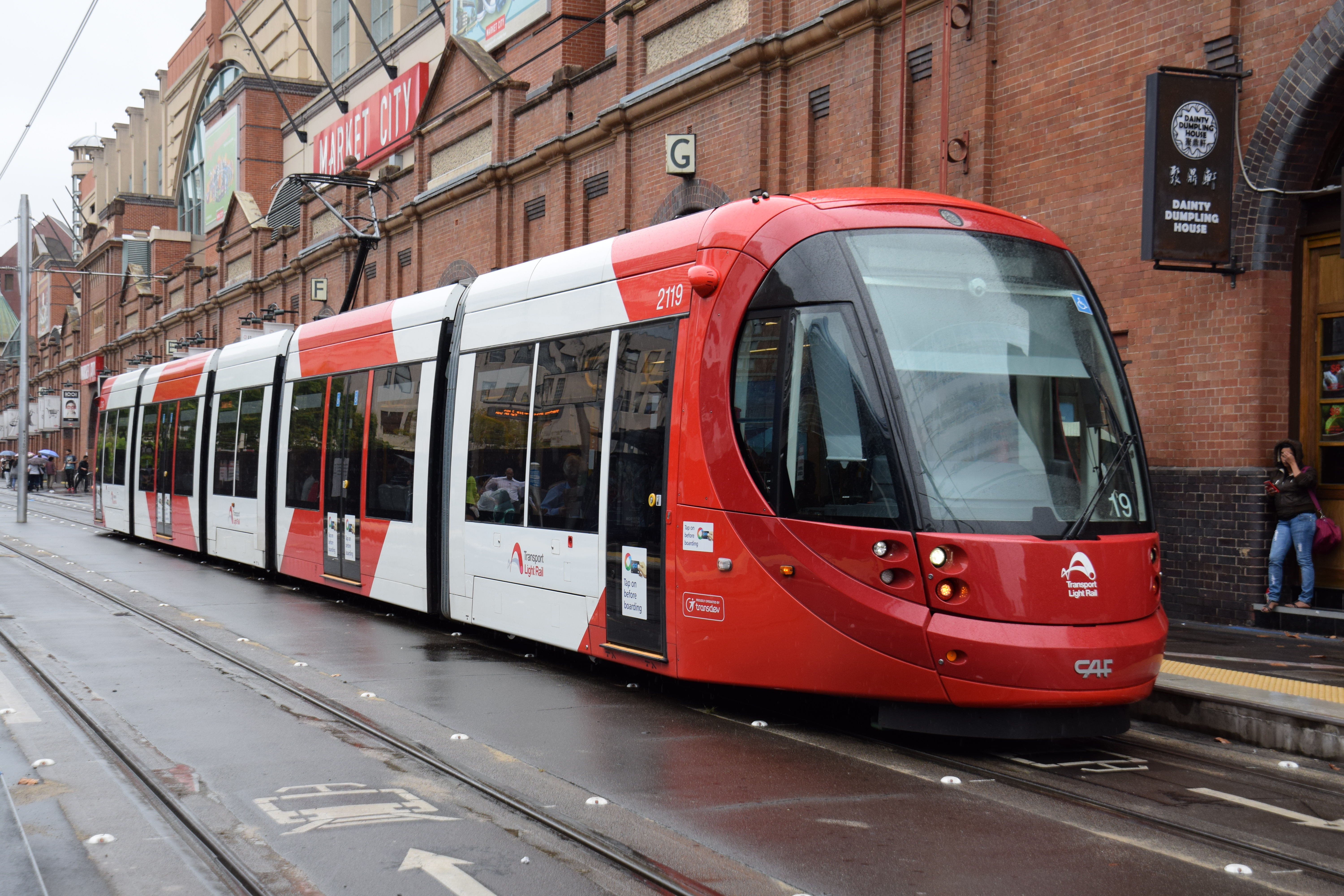 Sydney Transport Light Rail train-tram No.2119 at Paddy's Market, Sydney on a Sydney Central - Dulwich Hill service, 29 March 2016. CAF built 12 of these 'Urbos 3' sets in 2013-15.